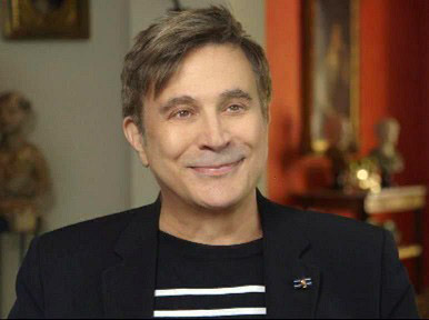 This is a screen grab from an interview with Arnold Stiefel that aired on the BBC in 2013.